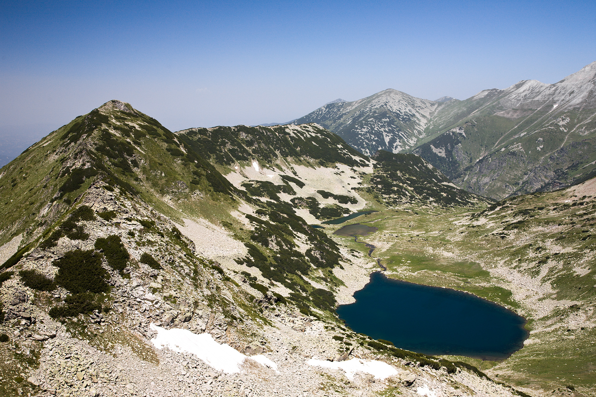 Gredaro peak & ridge in Pirin mountains in Bulgaria. Lakes to the right are Vlahinski, a group of five glacial lakes to the west of Vihren summit.